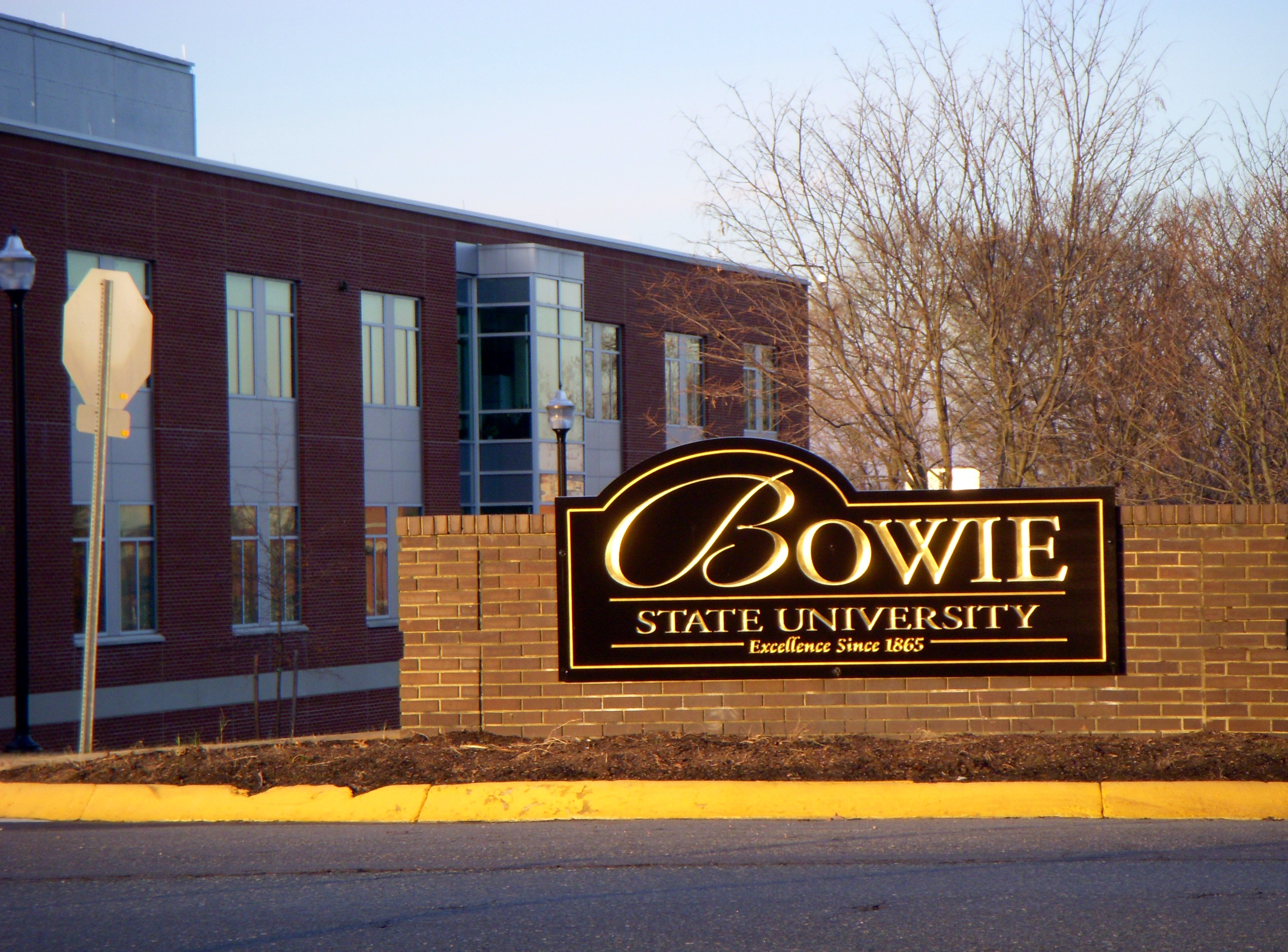 Bowie State University Main Entrance Gateway.